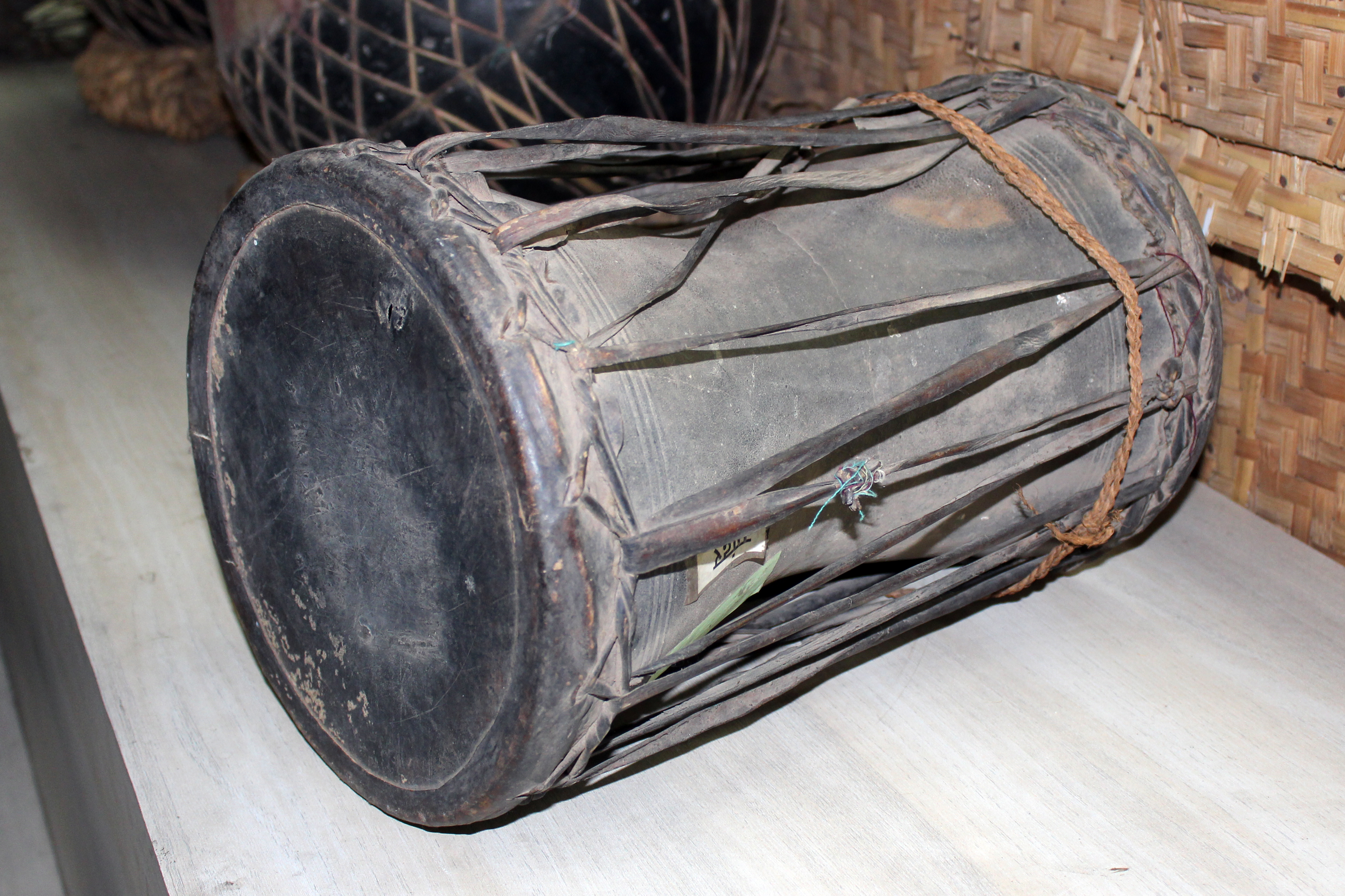 Drums of Chhattisgarh tribes